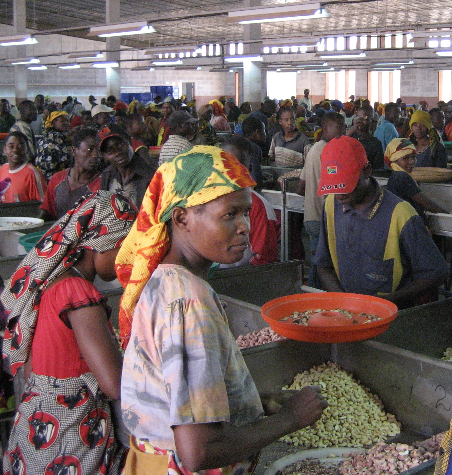 Cashew processing in Nampula province of Mozambique. Cashew is an important cash crop for Mozambique, as well as countries in West Africa.